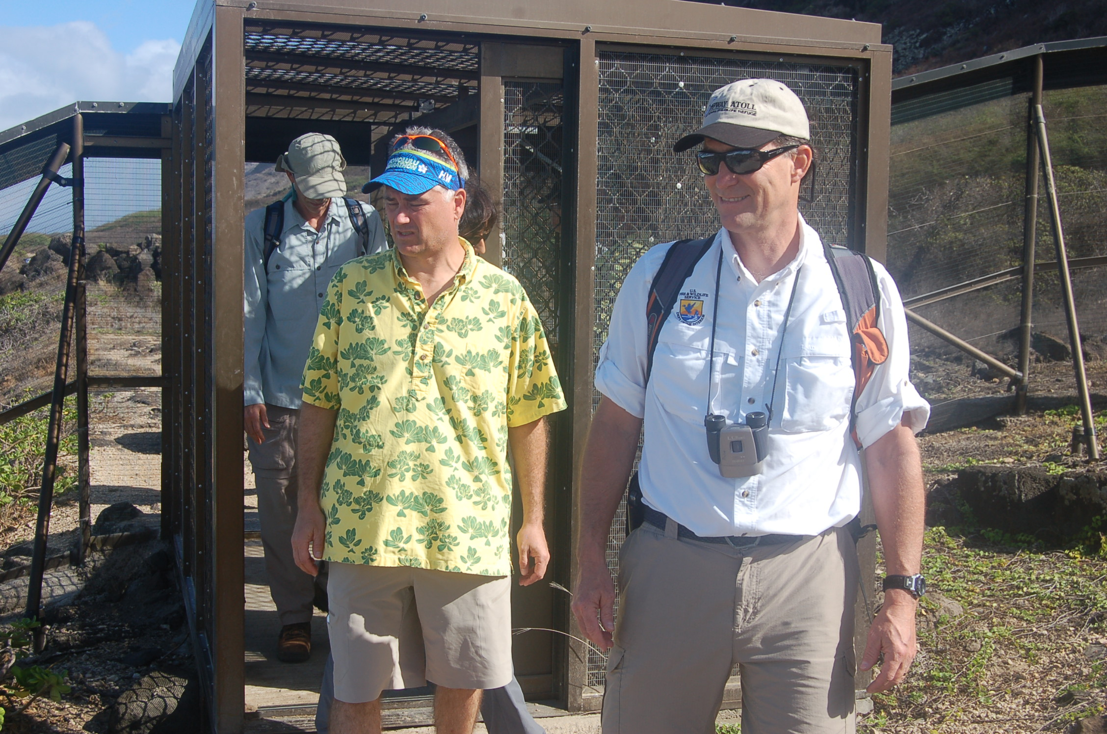 USFWS Director Dan Ashe tours Ka'ene Point State Park in Hawaii. Credit: USFWS